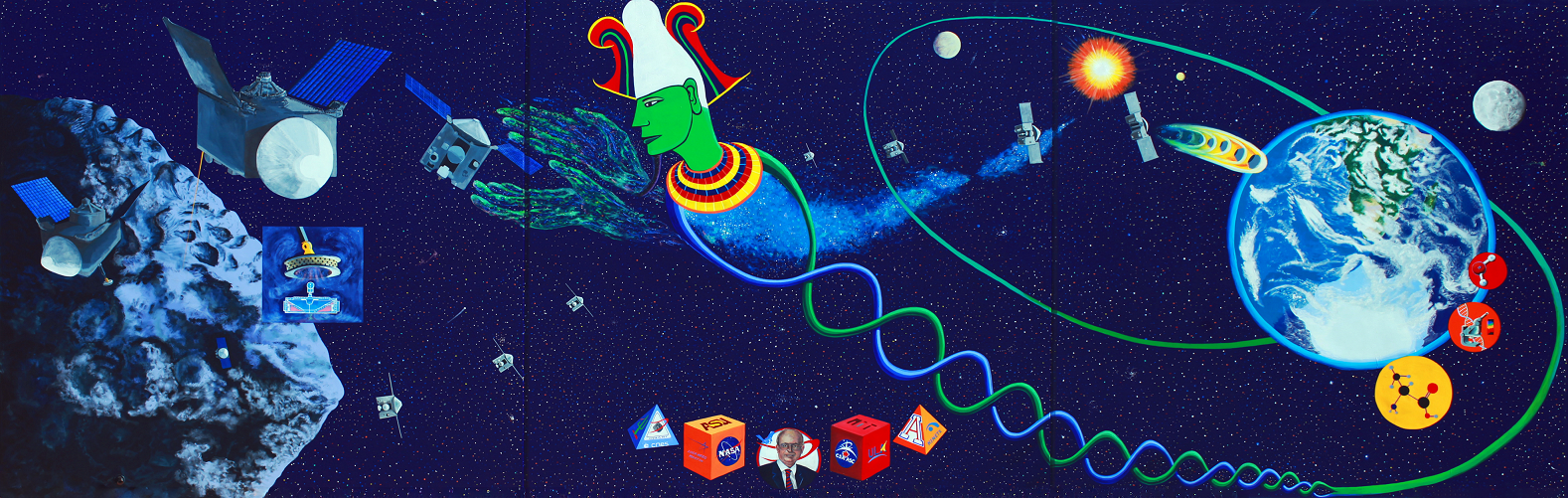 OSIRIS-Rex mission to asteroid Bennu: The acronym OSIRIS is in reference to the ancient Egyptian mythological god Osiris, the underworld lord of the dead. He was classically depicted as a green-skinned man with a pharaoh's beard, partially mummy-wrapped at the legs and wearing a distinctive crown with two large ostrich feathers at either side. His name was chosen for this mission as asteroid Bennu is a threatening Earth impactor capable of causing vast destruction and death. Rex means "king" in Latin.